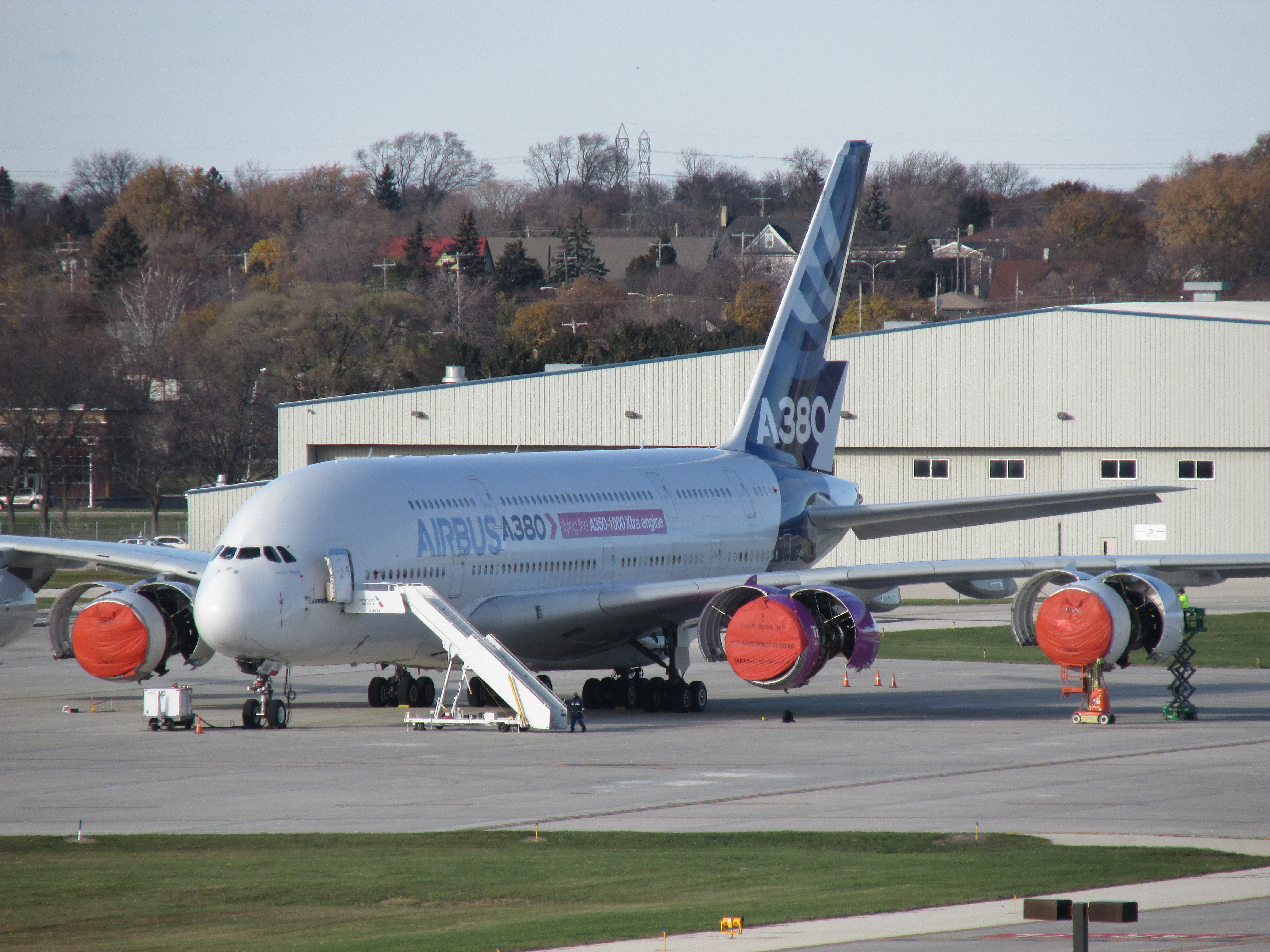 Airbus A380 at MKE conducting cold weather tests for the new A350-1000 Xtra engine.